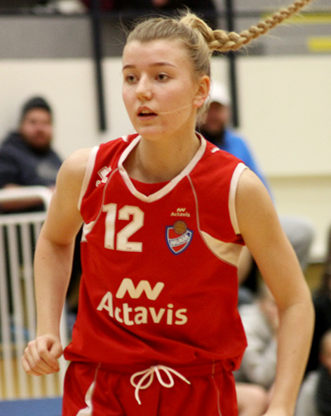 Þóra Kristín Jónsdóttir with Haukar on January 14, 2015.